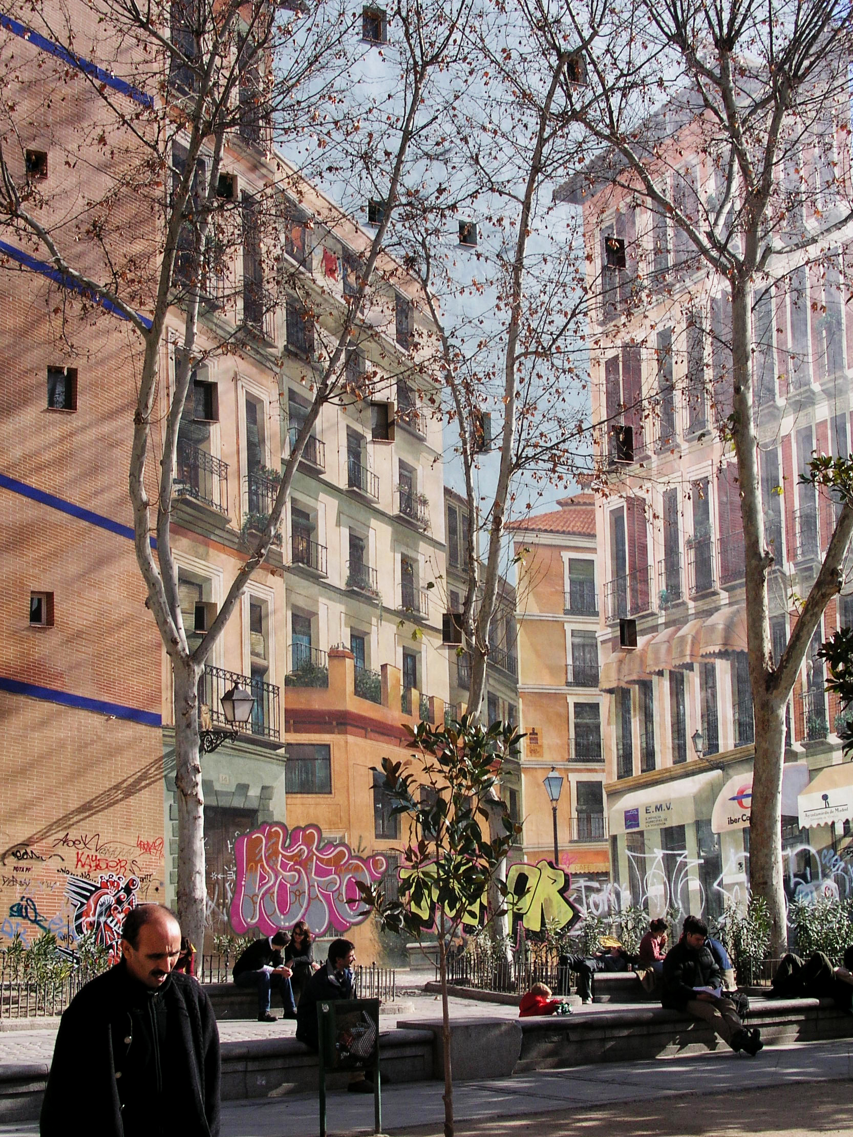 Street scene, La Latina neighborhood, Madrid. Mural painting.